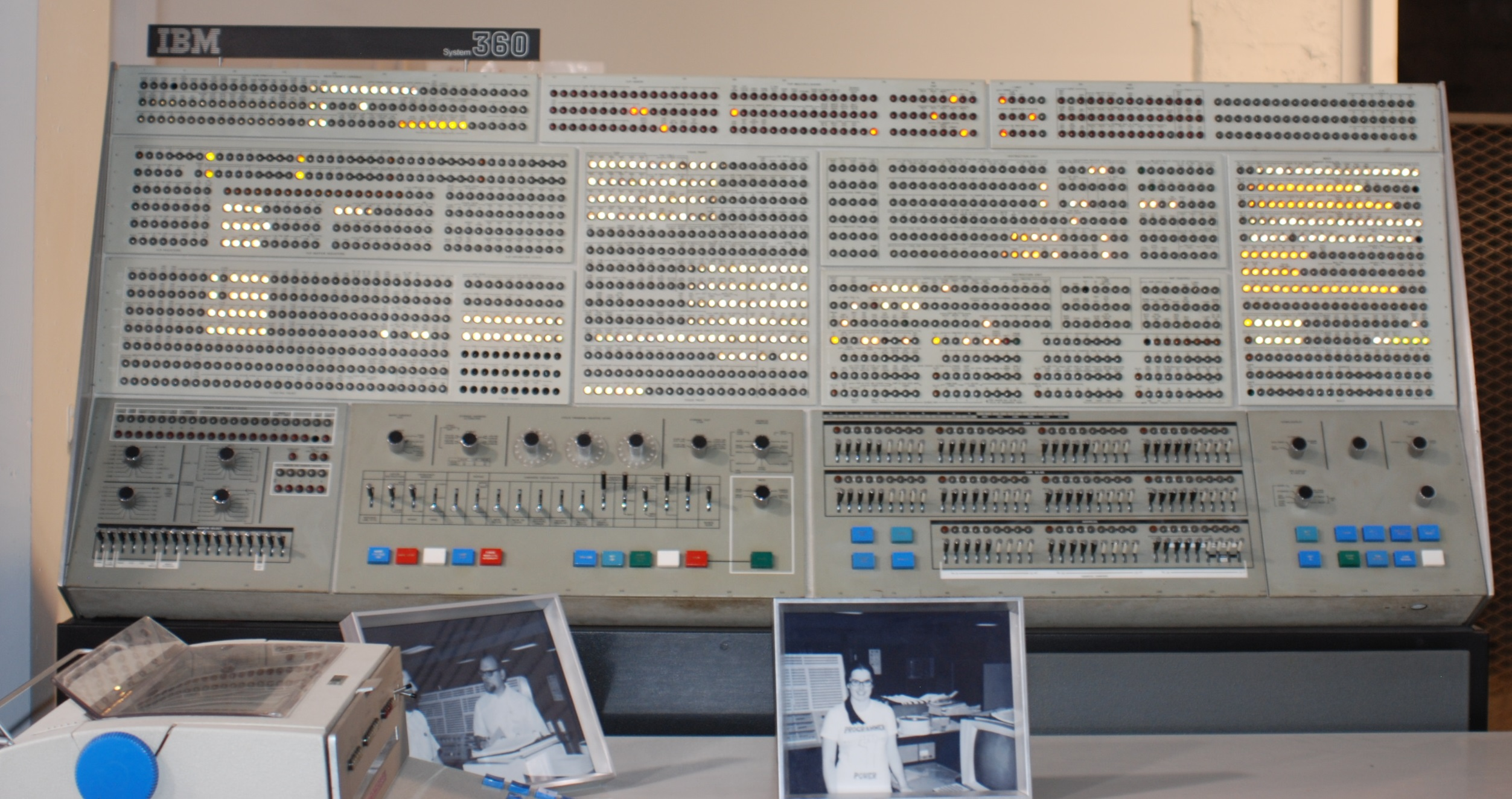 IBM System/360 Model 91 Front Panel. Currently on display at the Living Computer Museum in Seattle, Washington.